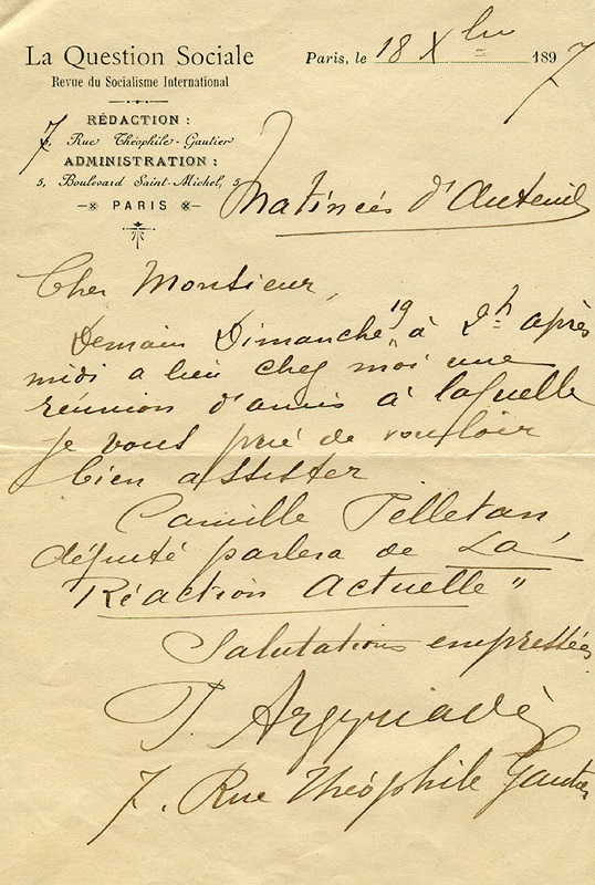 Letter from Paul Argyriades